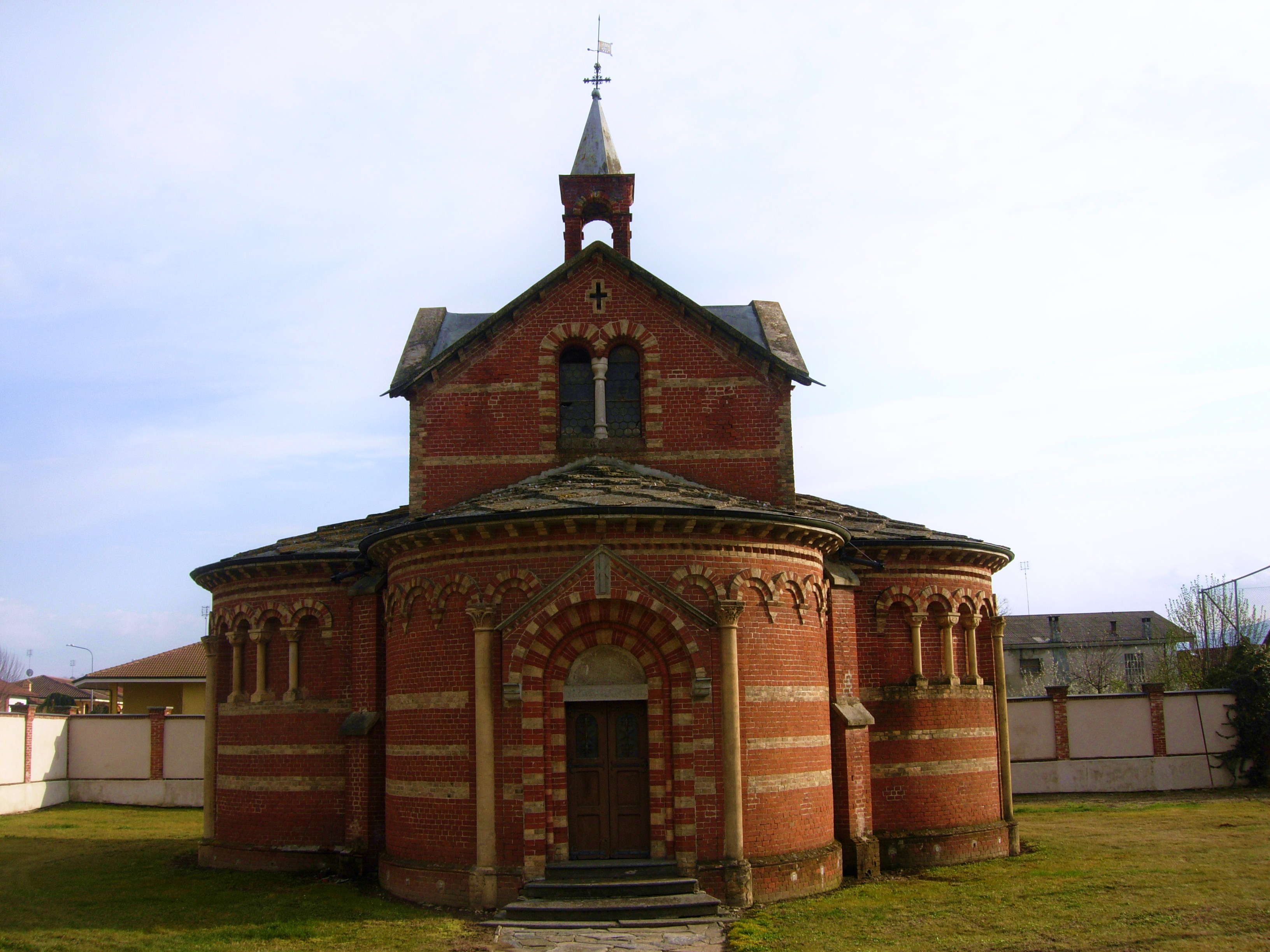 Marquis' Chapel in Cardè